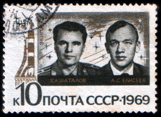 USSR stamp, "Soyuz-8", 1969, 10k. Vladimir Shatalov (left) and Aleksei Yeliseyev